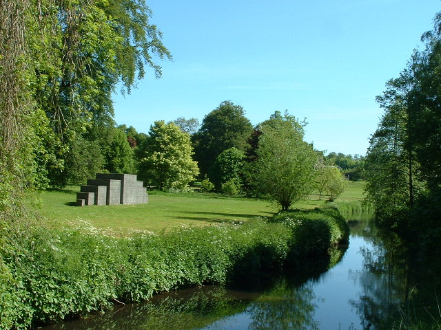 River Dearne, Yorkshire Sculpture Park. the Sol LeWitt Sculpture - 123454321, can be seen on the left of the photo.